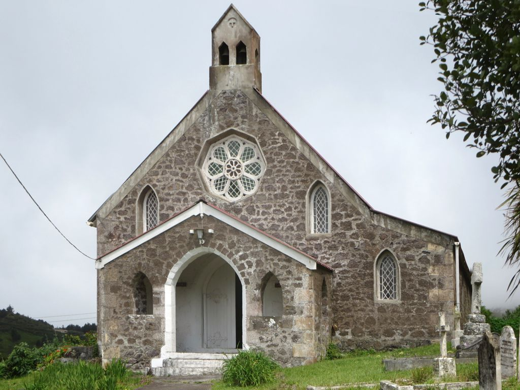 St Matthew's Church at Hutts Gate has notable stained glass windows in honor of the two British regiments that guarded Boer prisoners on St Helena Island in 1902.